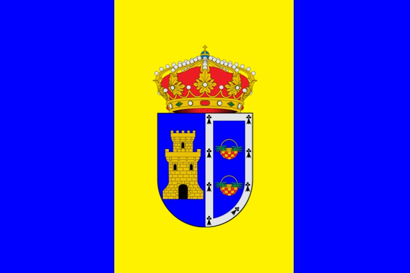 Bandera del Ayuntamiento de Santa Olalla